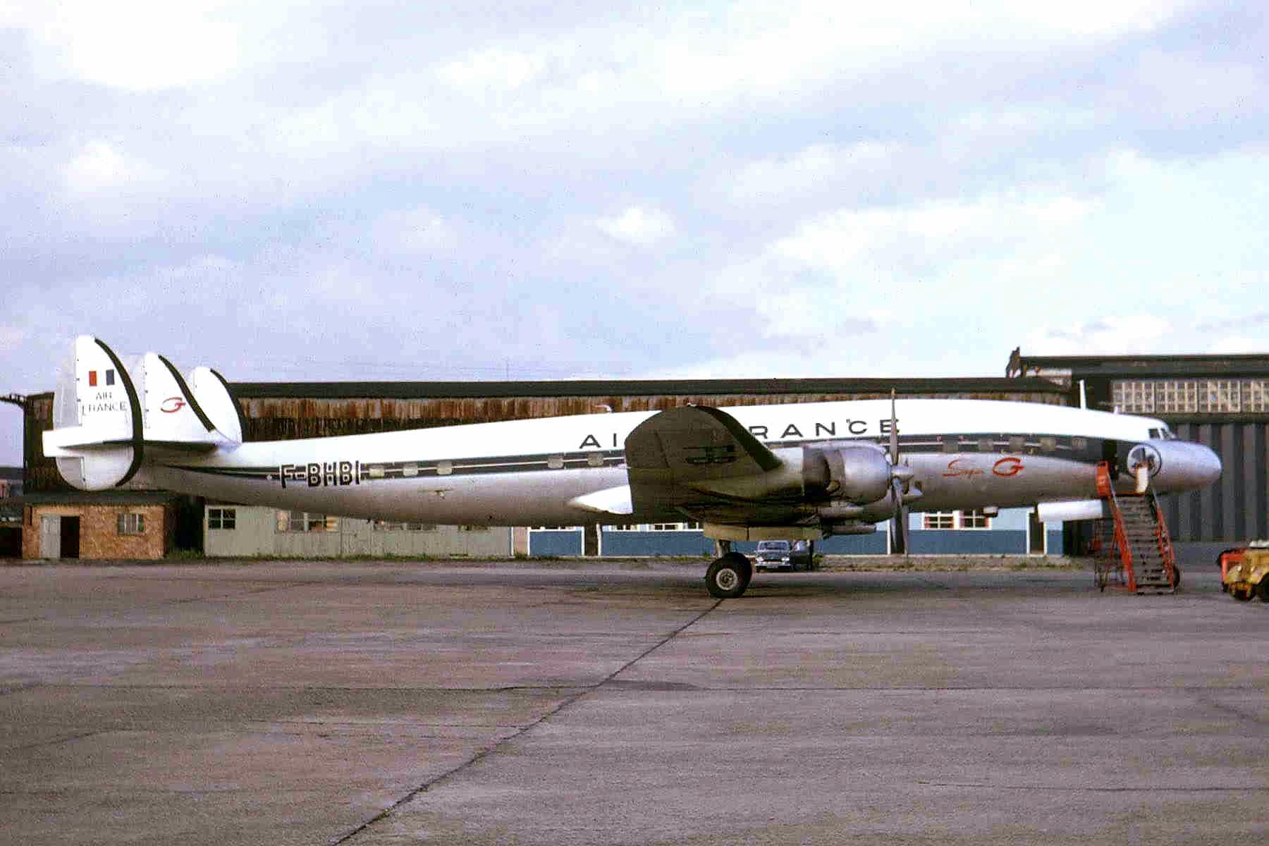 A picture of an airplane (name of it is on the file name).